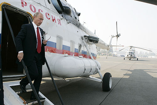 ZHUKOVSKY, MOSCOW REGION. Arriving at the air base of the M. M. Gromov Flight Research Institute.